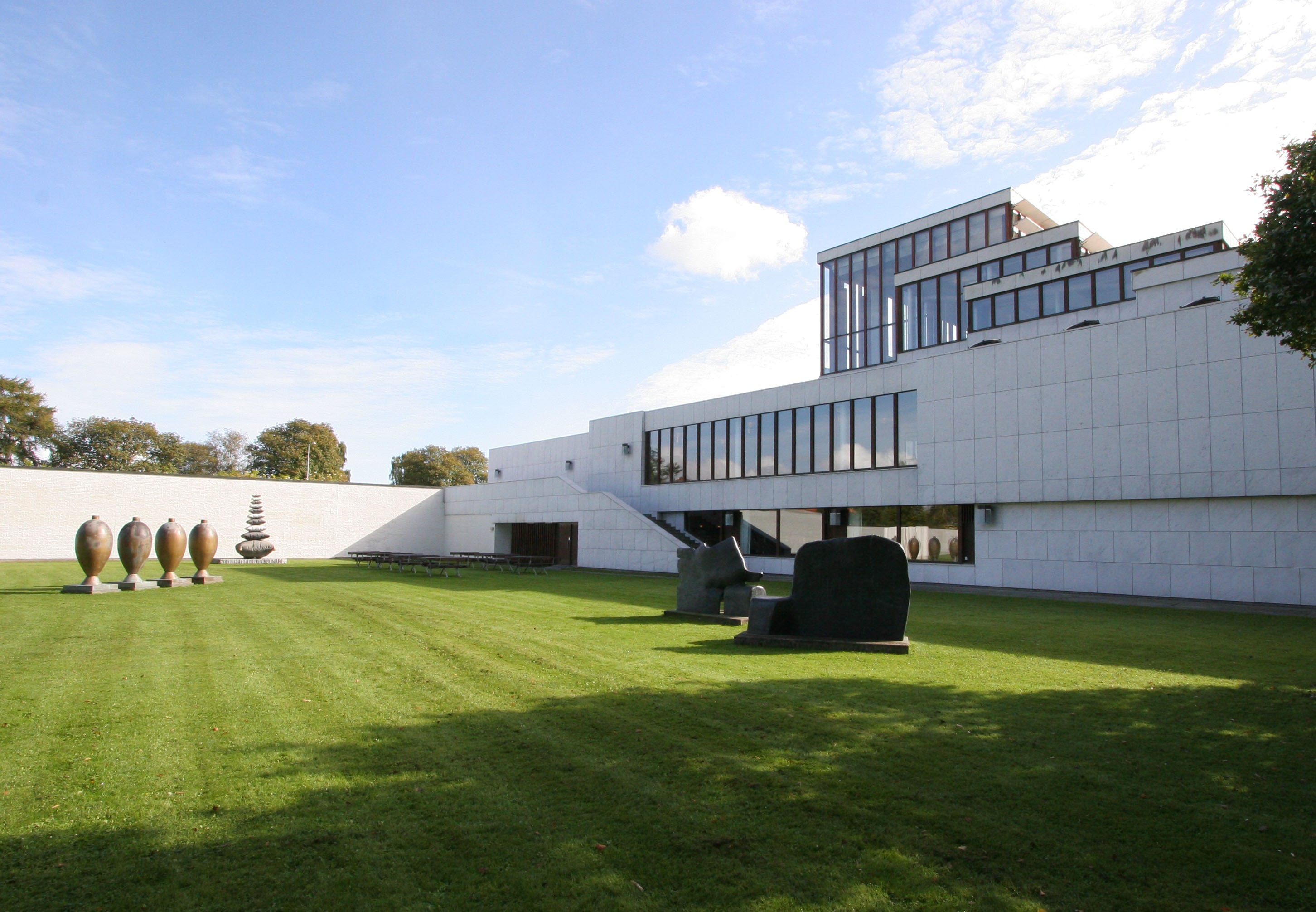 KUNSTEN Museum of Modern Art, Aalborg, Denmark. Designed by Elissa and Alvar Aalto and Jean-Jacques Baruel (1968-72).